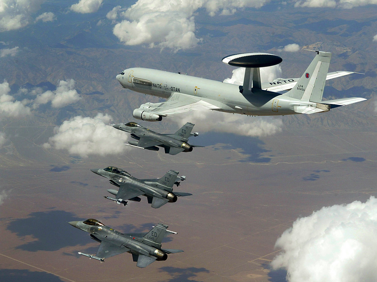 Luxembourgian-registered NATO E-3 AWACS flying with three American Air Force F-16 Fighting Falcon fighter aircraft in a NATO exercise